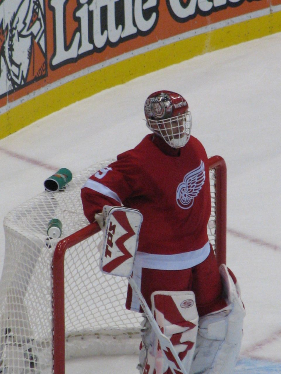 Photo of Dominik Hasek of the Detroit Redwings